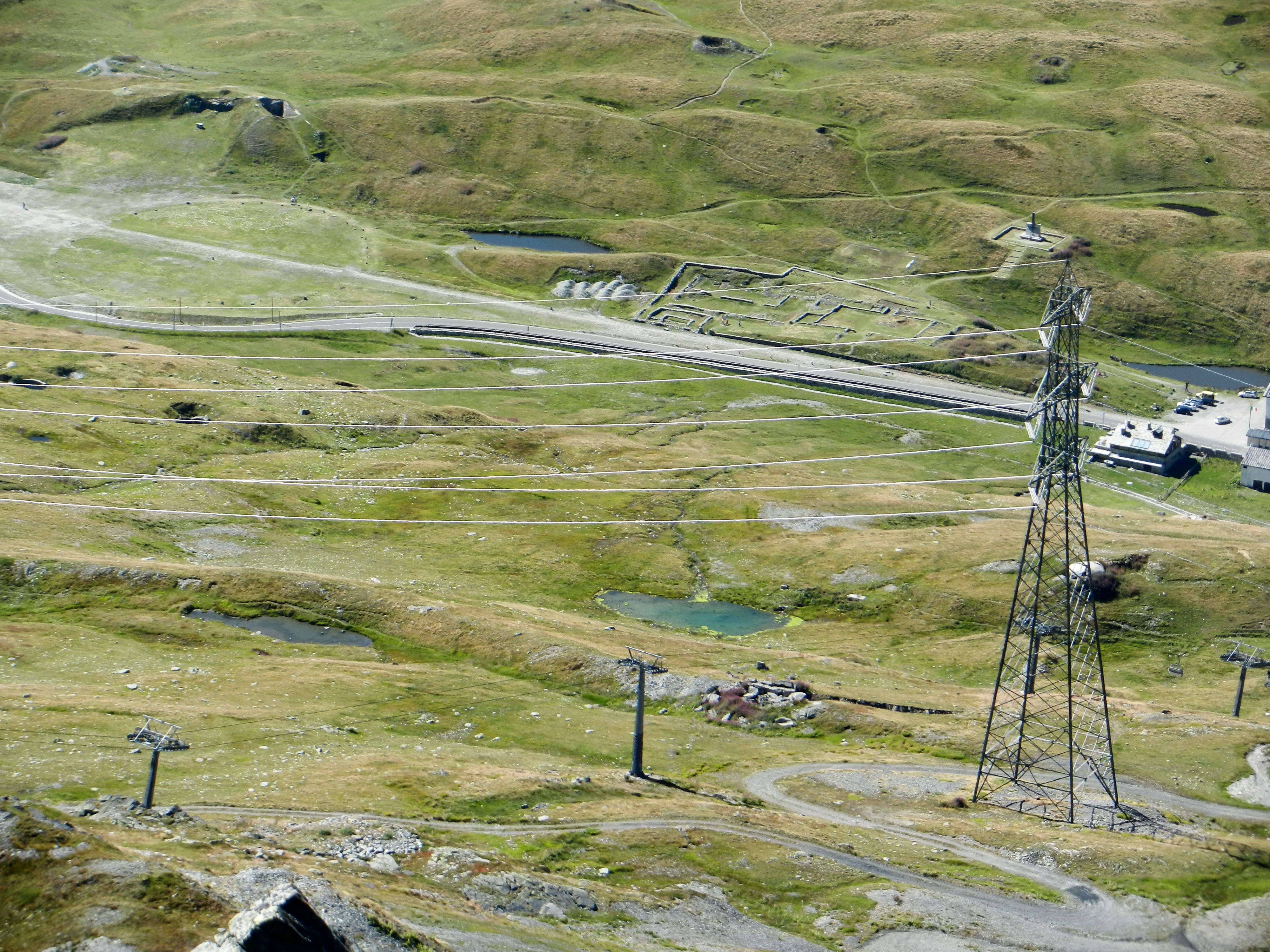 Aosta Valley, Italy, Little St. Bernard Pass, cromlechs and foundation of Roman mansio.